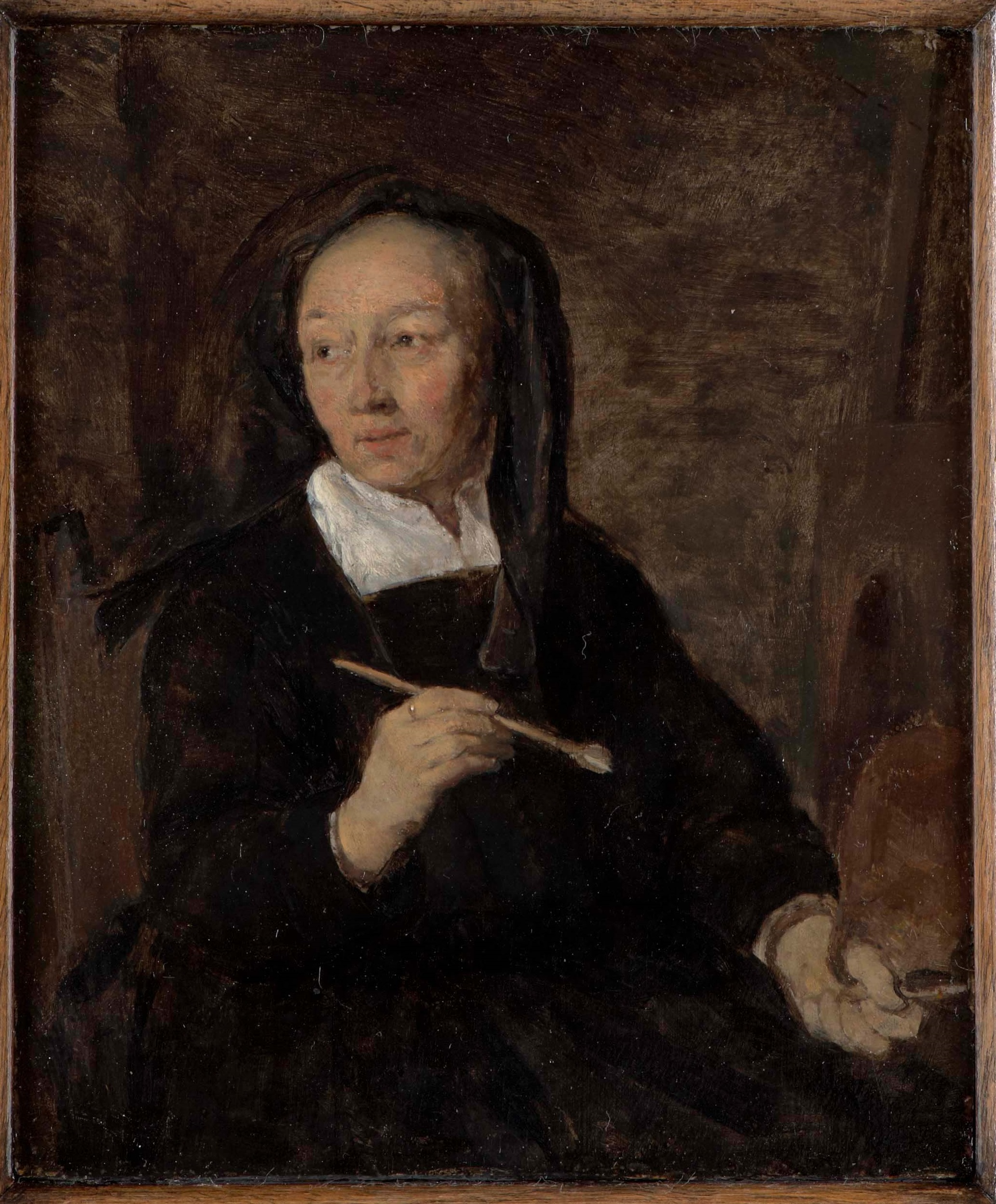 miniature; possibly a portrait of the painter Maria de Grebber